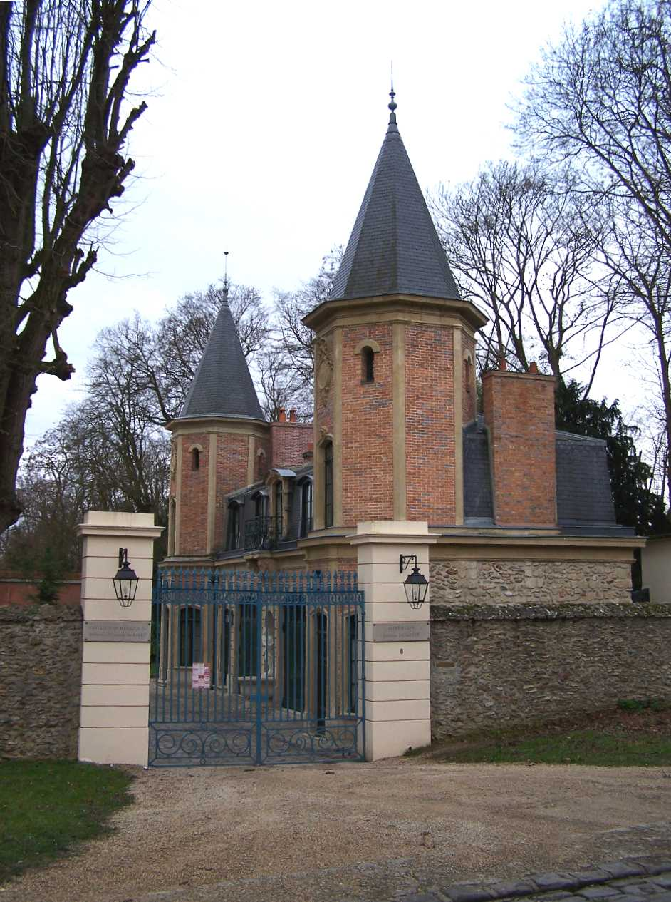 Little pavilion at the entrance of the domain of Madame du Barry in the path of the Machine in the village of Voisins in Louveciennes (Yvelines, France)